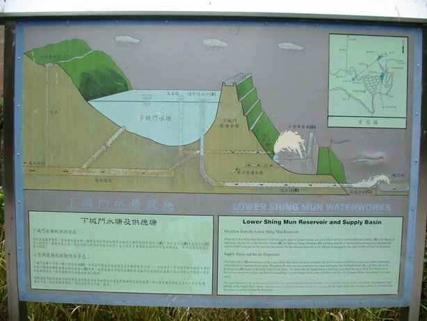 cheng_don